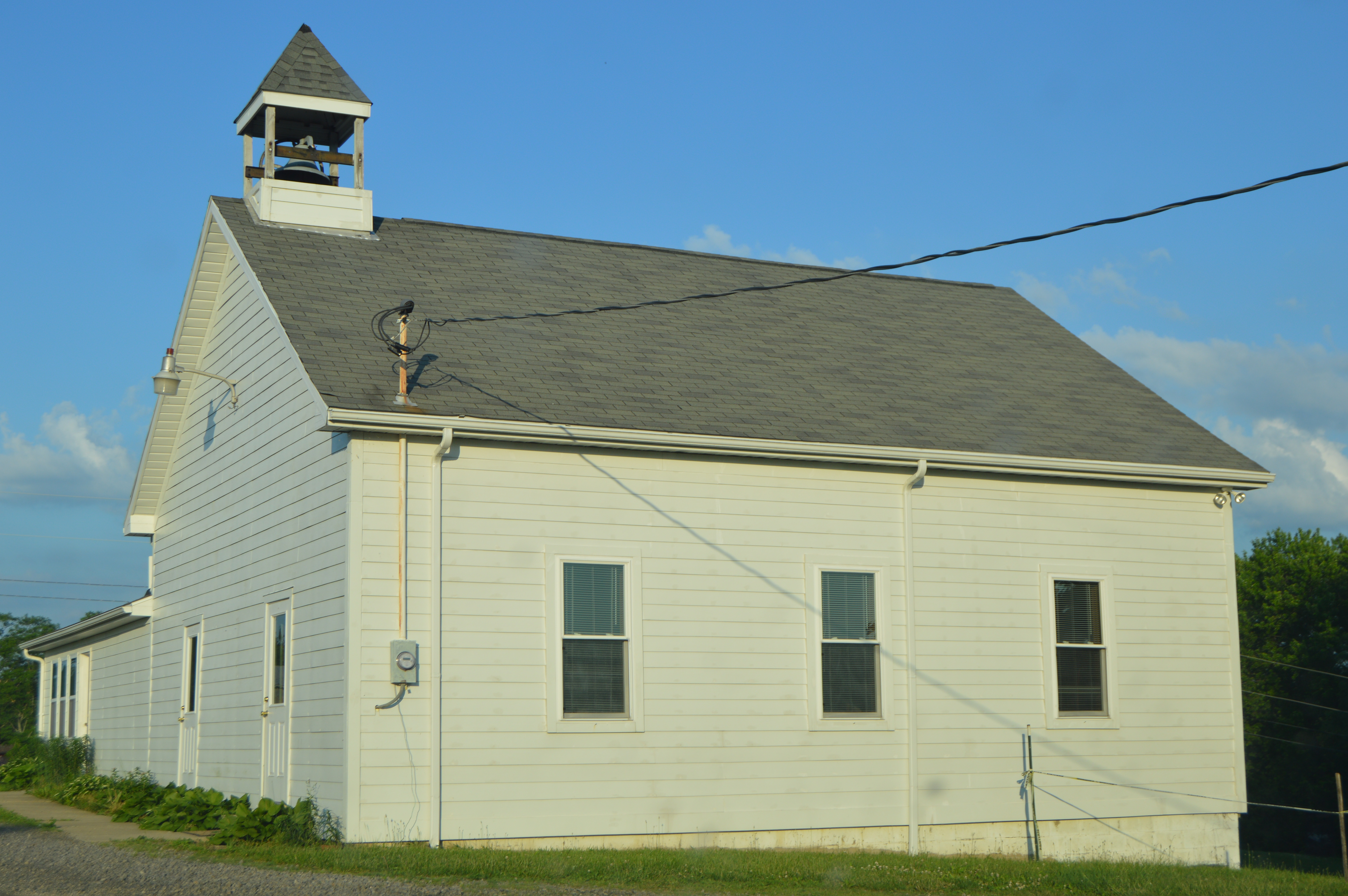 Western side and front of the Methodist church in Dungannon, Ohio, United States, located at 14841 State Route 339.